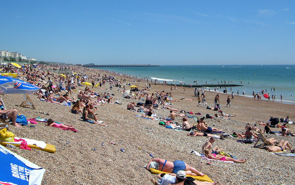 Brighton beach on a hot summer's day in June 2005.